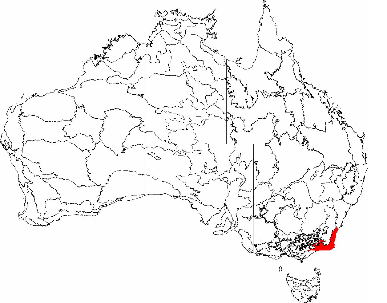 This is a map of the Interim Biogeographic Regionalisation of Australia (IBRA), with state boundaries overlaid. The South East Corner region is shown in red.